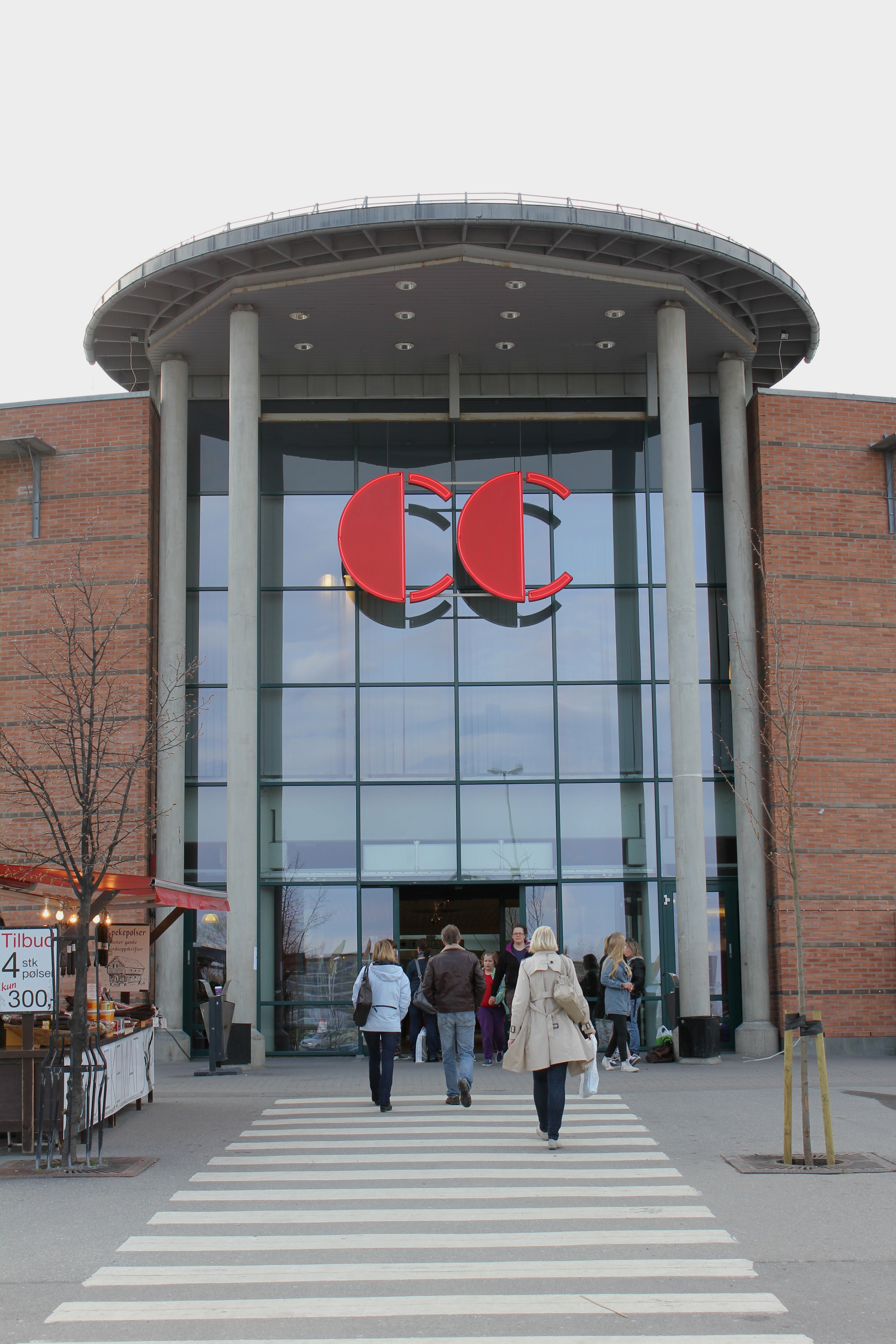 Entering the shopping mall CC Gjøvik, Norway